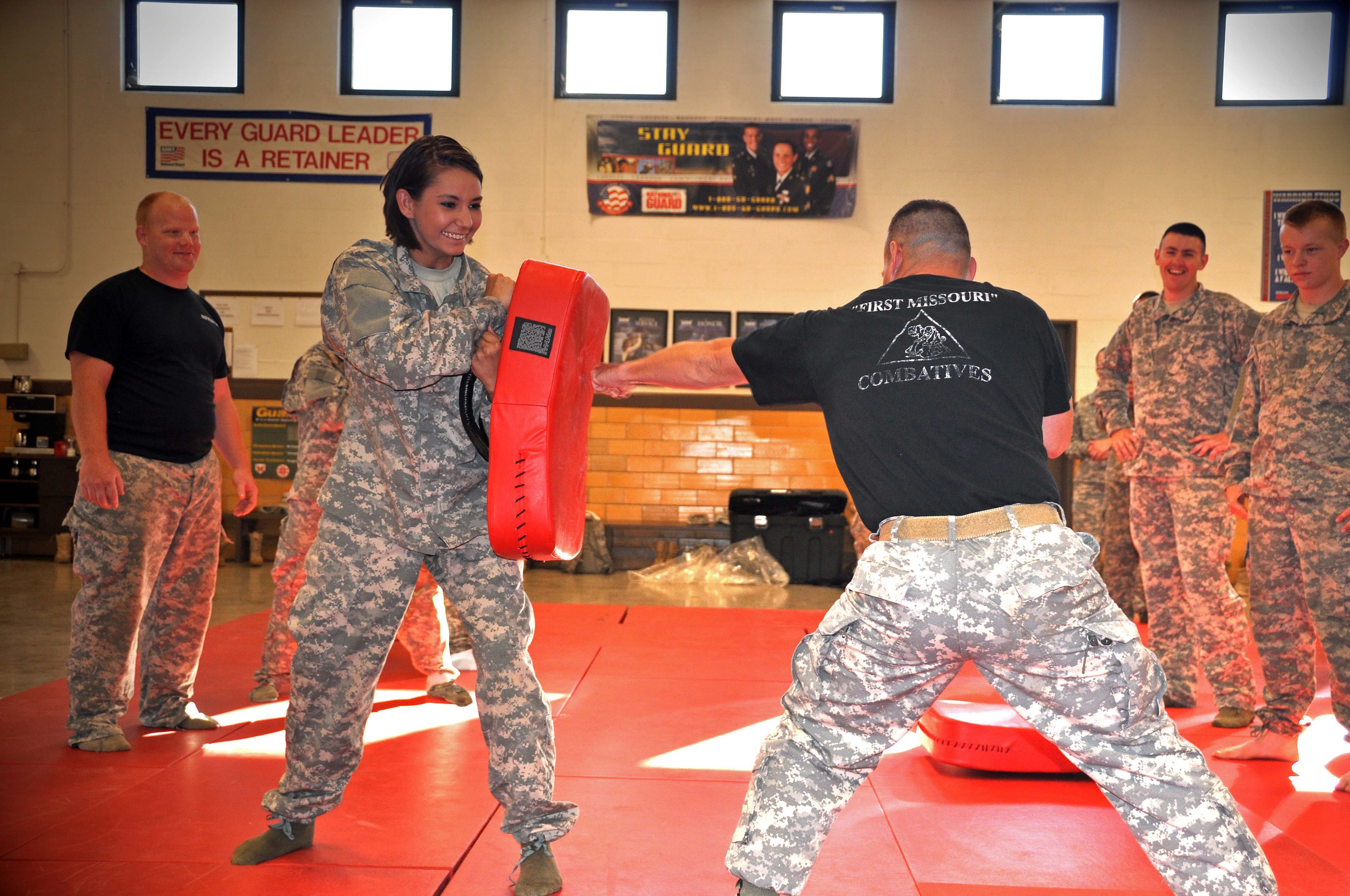 The Missouri National Guard 311th Brigade Support Battalion, Co. A out of Nevada, recently went through a combative self-defense class instructed by Sgt. 1st Class Shawn Franklin and Sgt. Ryan Herda. Franklin explained that the class involves a combination of muay thai, kickboxing and wrestling. With the help of Herda, Franklin conducted his planned lessons that involved Soldiers practicing strikes, take downs, and submissions. At the end of the day, the Soldiers tested their new skills by teaming up in groups of two against Franklin. In the test, the Soldiers were required to prevent Franklin from crossing into their territory and were forced to take him down if he persisted. (Photo Spc. Sarah Vasquez)